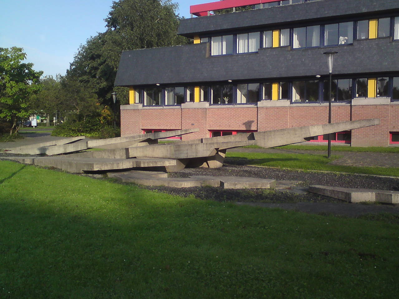 Concrete sculpture in front of City Hall of Hoorn.